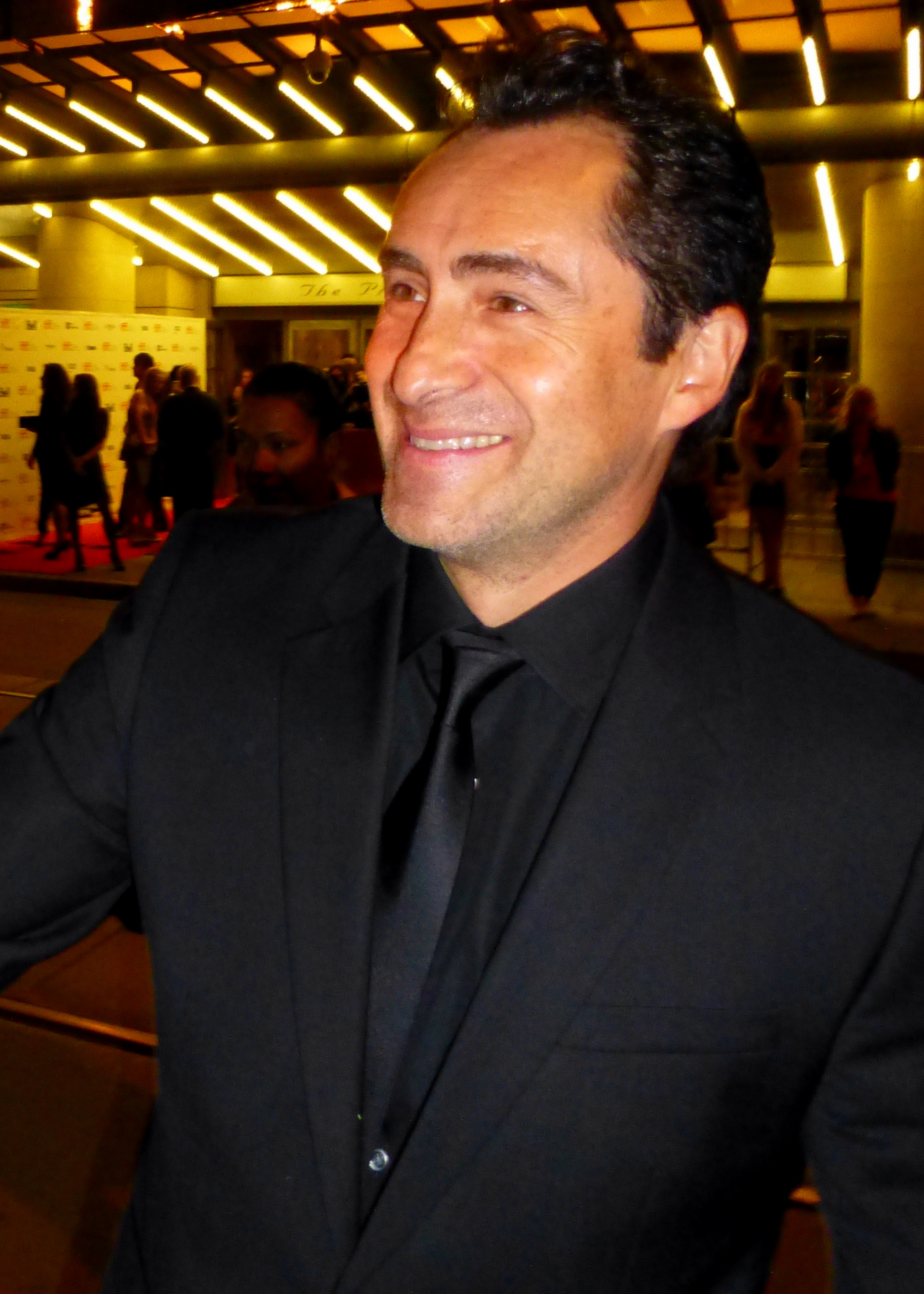 Demian Bichir at the premiere of Dom Hemingway, Toronto Film Festival 2013